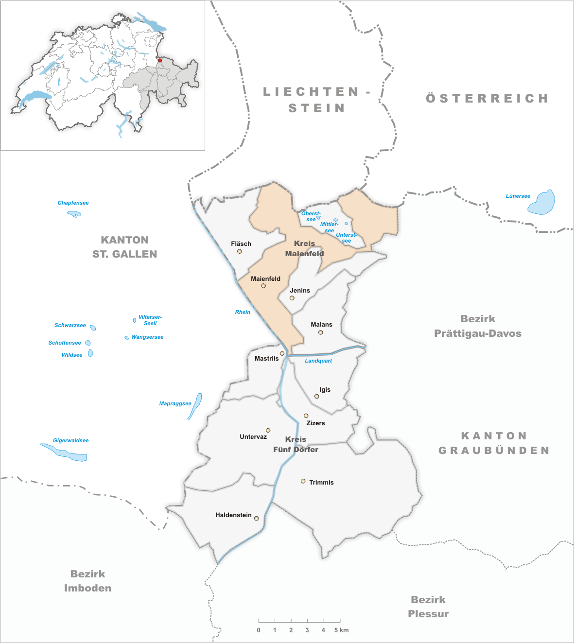 Municipality Maienfeld